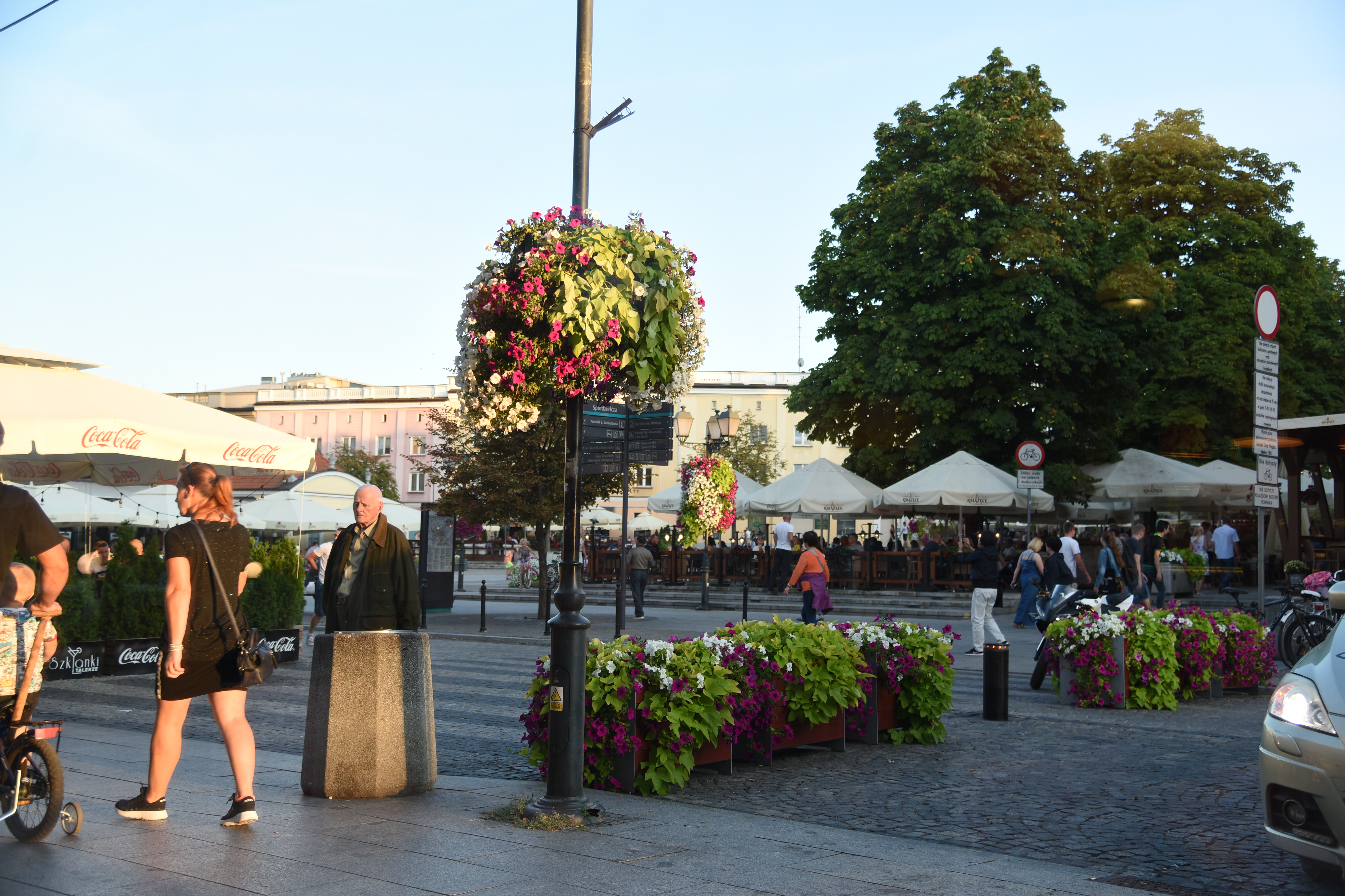 Rynek Kosciuszki in Bialystok, August 2019